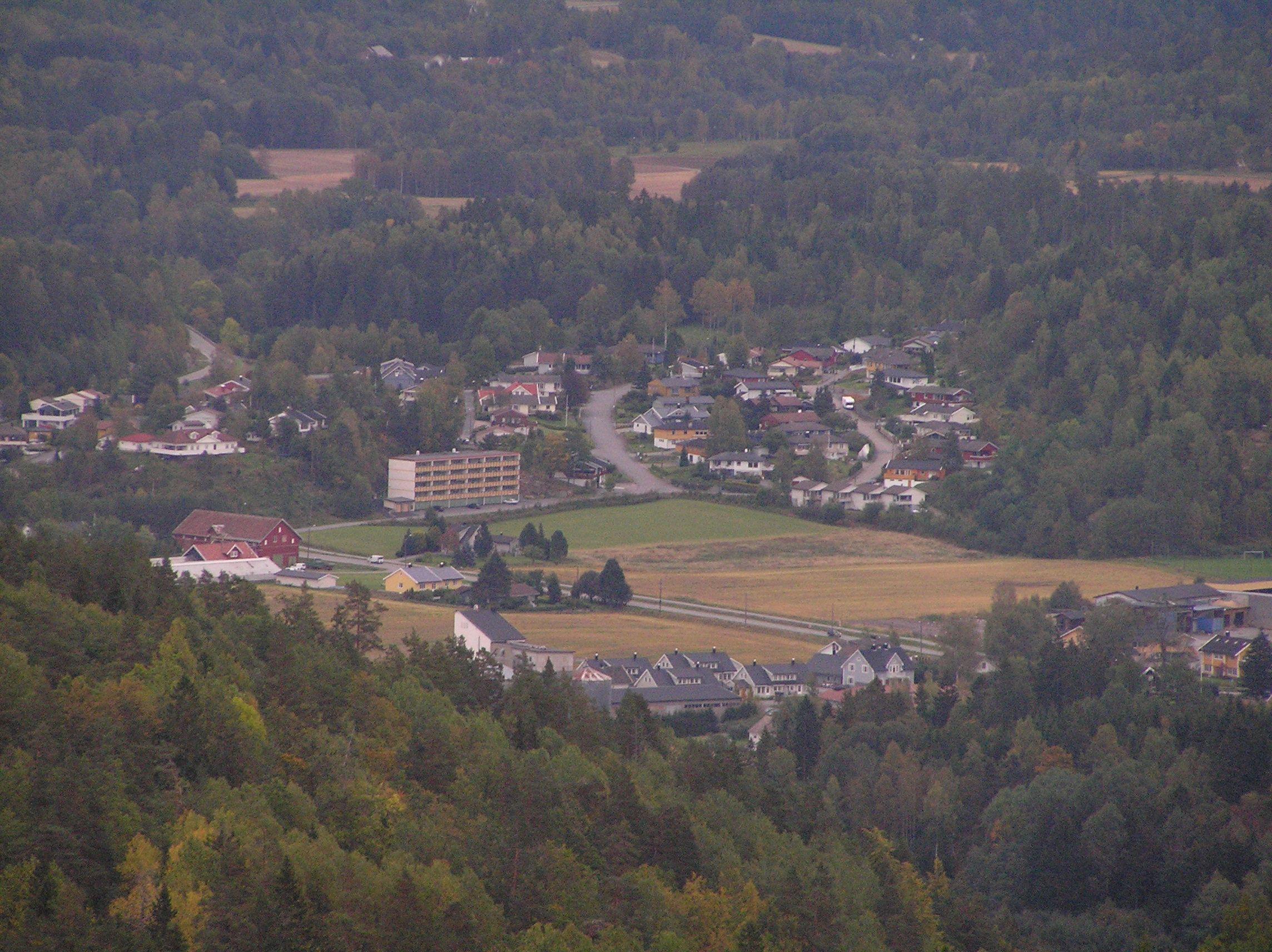 Overview picture of parts of the village Kvelde. The picture is taken from Barlindåsane, 25 September 2009.